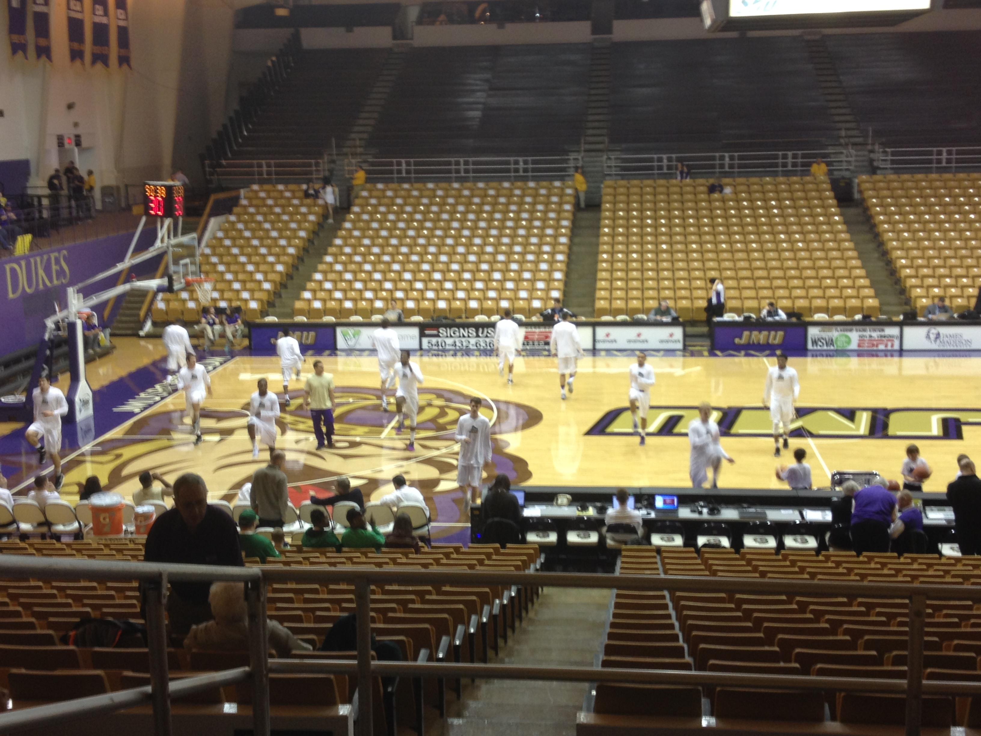 The Convocation Center at James Madison University